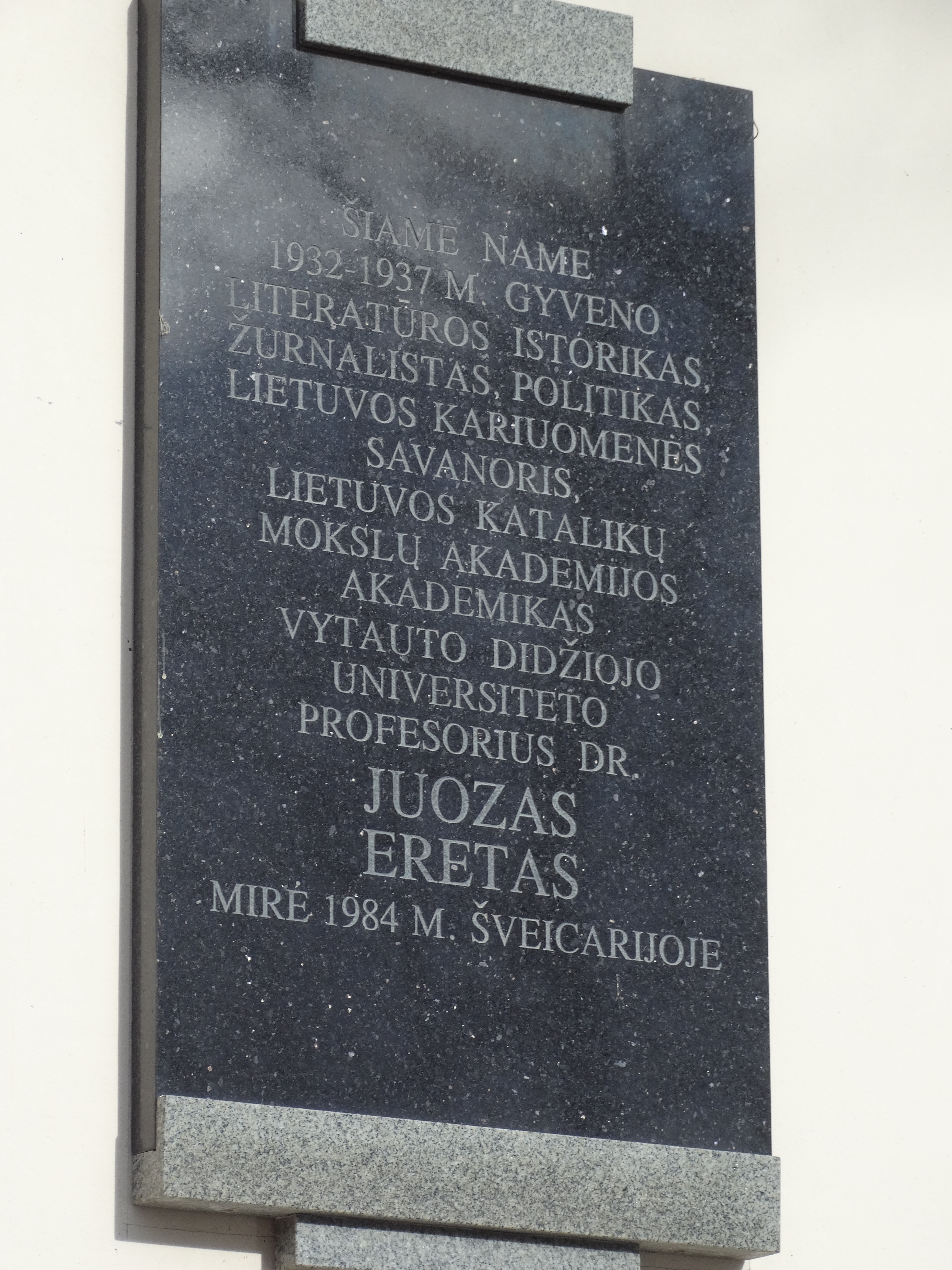 Memorial plaque to Juozas Eretas, Rotušės a., Kaunas, Lithuania